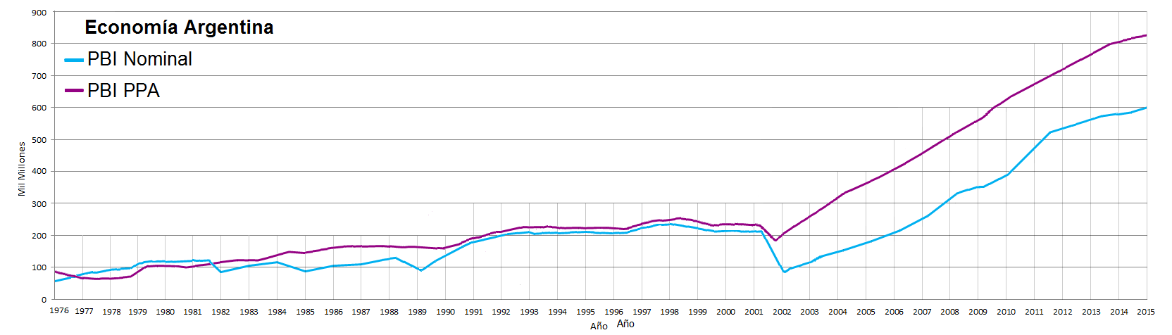 PIB 2015 Argentina.png